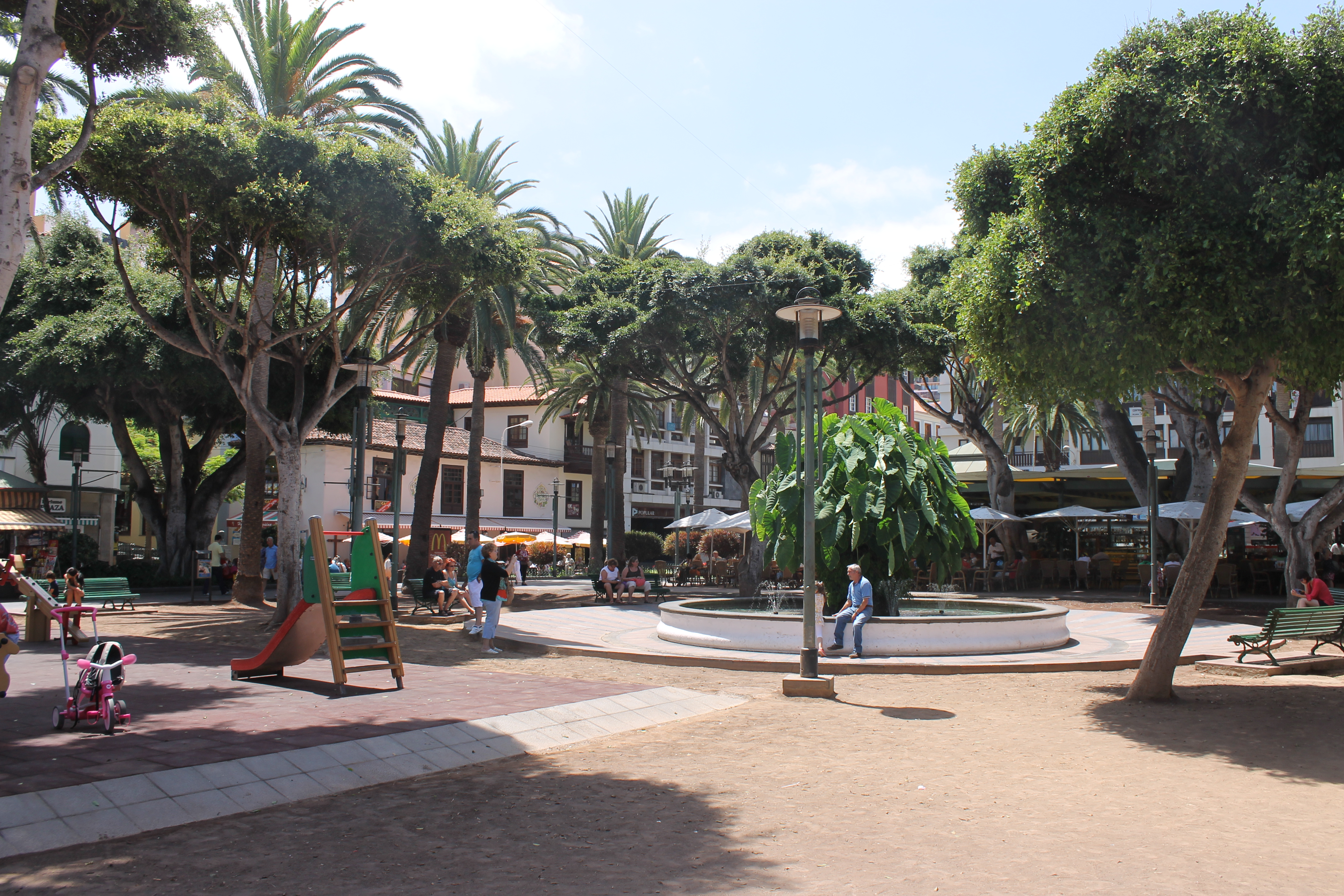 Plaza del Charco in Puerto de la Cruz, Teneriffe